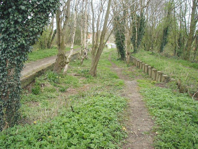 Helmsley railway station Original description: Helmsley Station platforms, 2006 Site of Helmsley railway station, opened 1871, on the Gilling and Pickering branch of the North Eastern Railway. The platform on the left of the picture is now a public right of way. The facing platform has been stripped of its pavings.